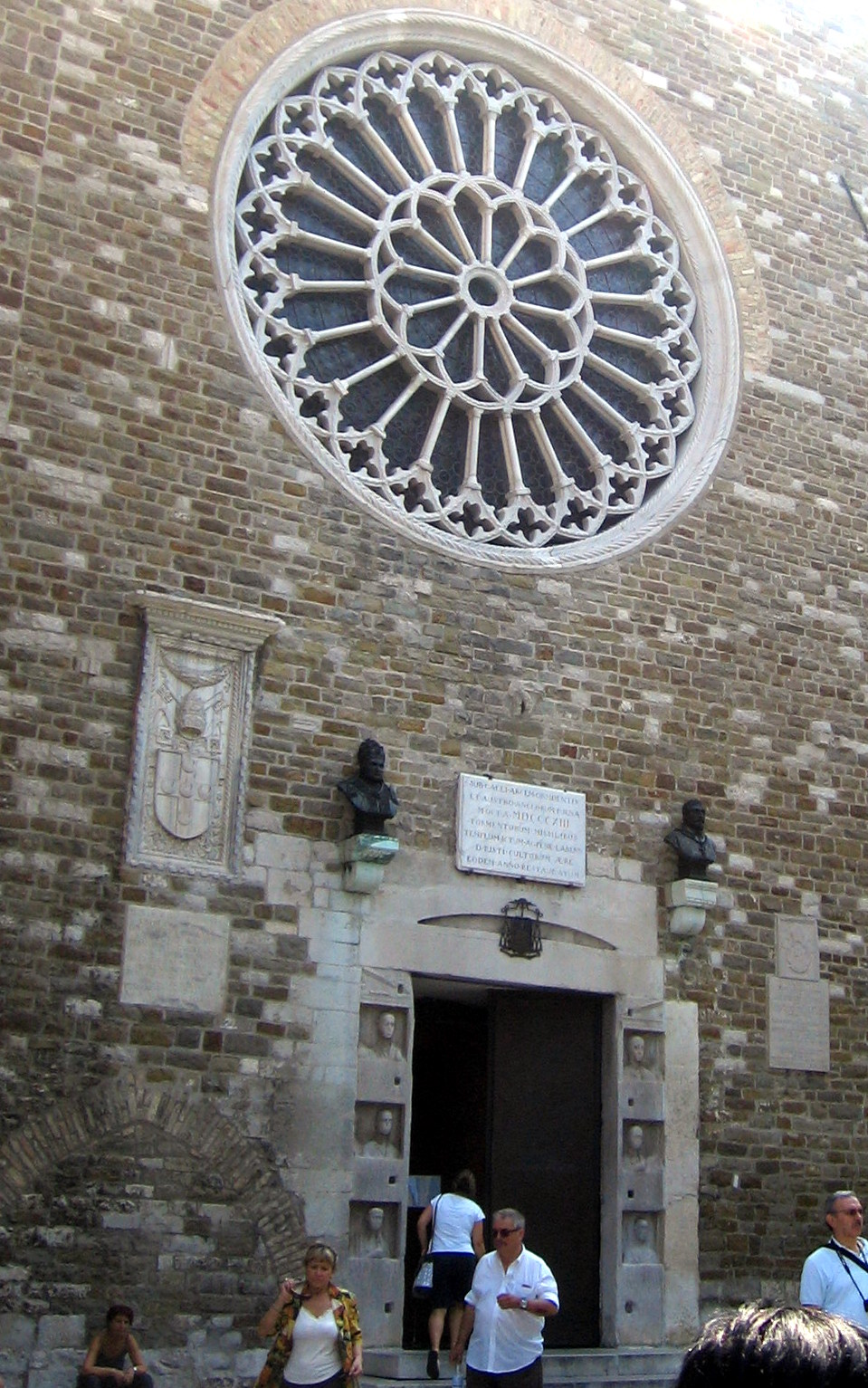 St. Just in Triest with statue and coats of arms of Pope Pius II